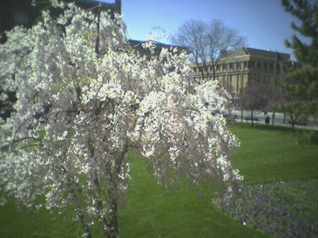 Mid-April at Temple, Philadelphia